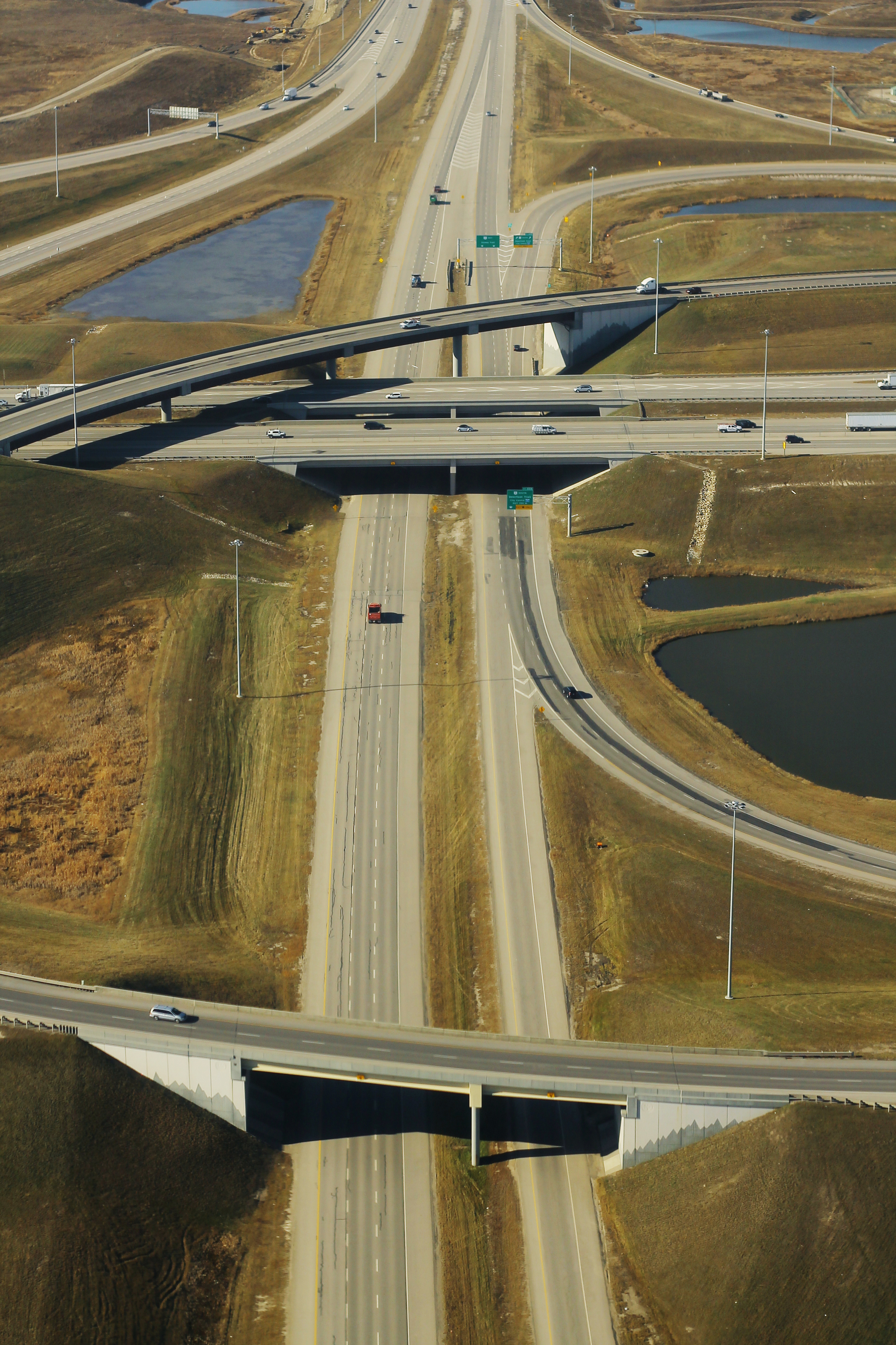 Aerial photograph of Stoney Trail NE looking west at its intersection with Deerfoot Trail in northeast Calgary, Alberta, Canada.